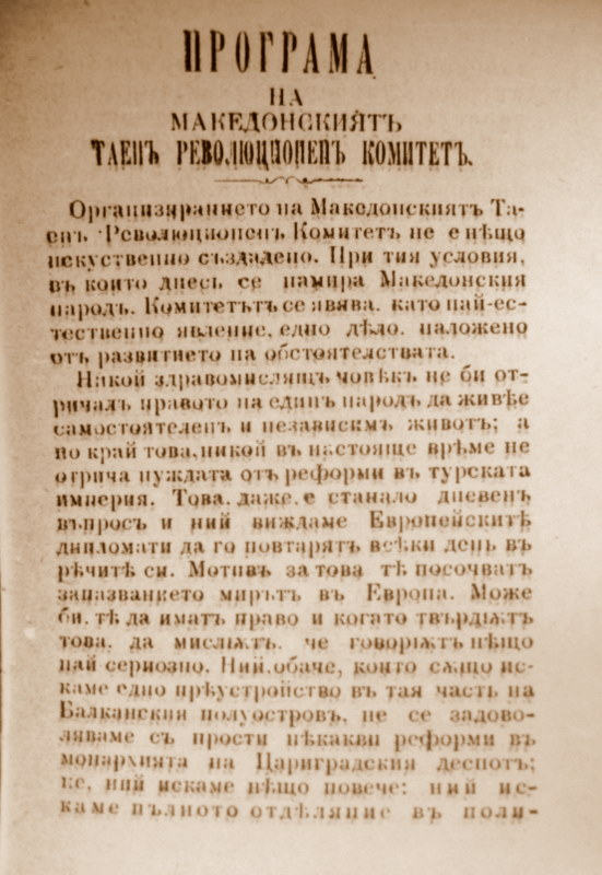 Program of the Macedonian Secret Revolutionary Committee for the complete separation of Macedonia in a distinct political unit.